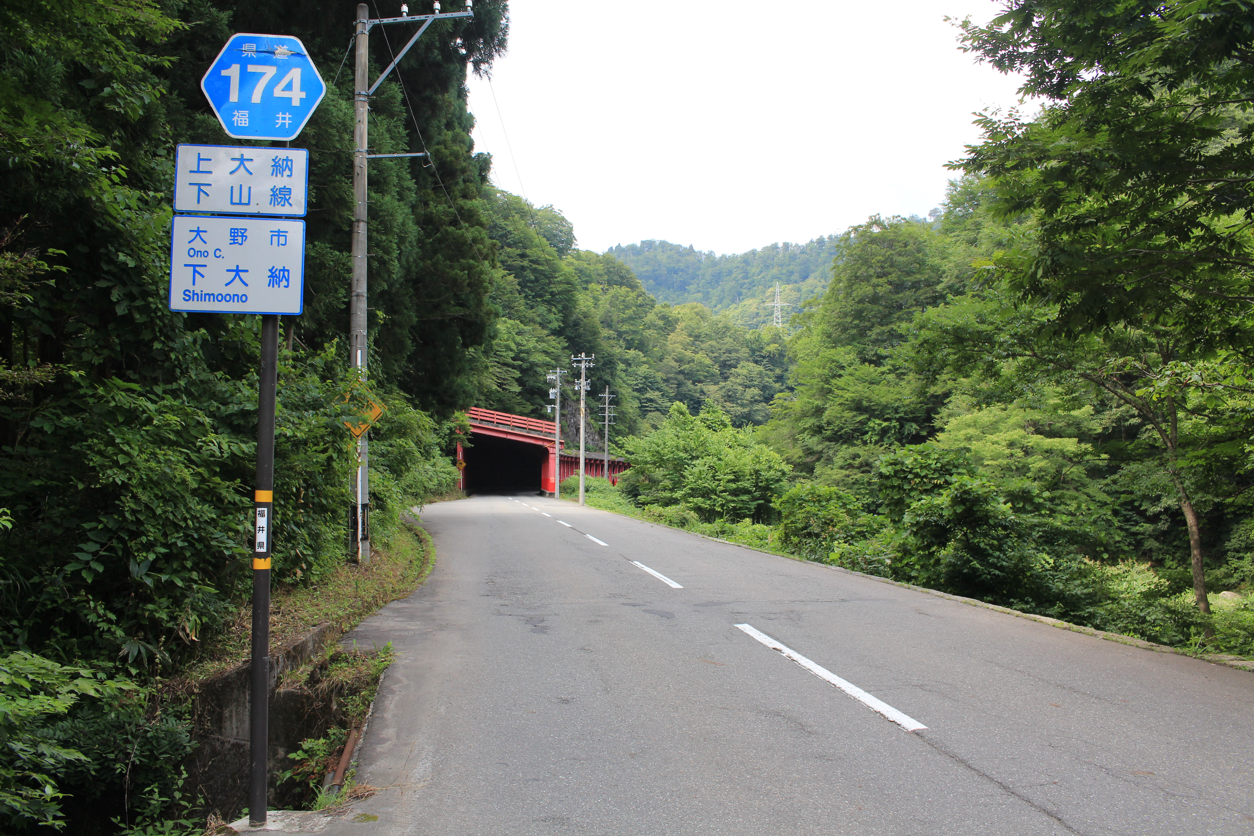 Fukui Prefectural Road Route 174 in Shimoono, Ono, Fukui prefecture, Japan.